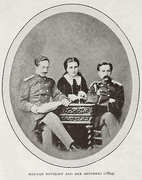 Olga Alekseyevna Novikova (1840—1925)